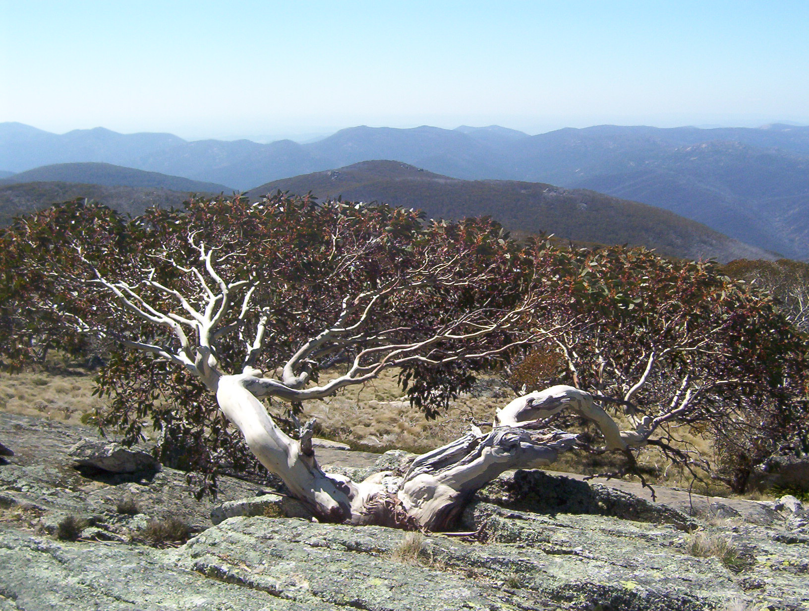 Description: A picture taken,of a Eucalyptus pauciflora niphophila from the top of the Mount Ginini, Namadgi National Park. Source: Own work Date Taken: October 5th 2006 Author: Dfrg.msc Uploader: Dfrg.msc Permission: Given